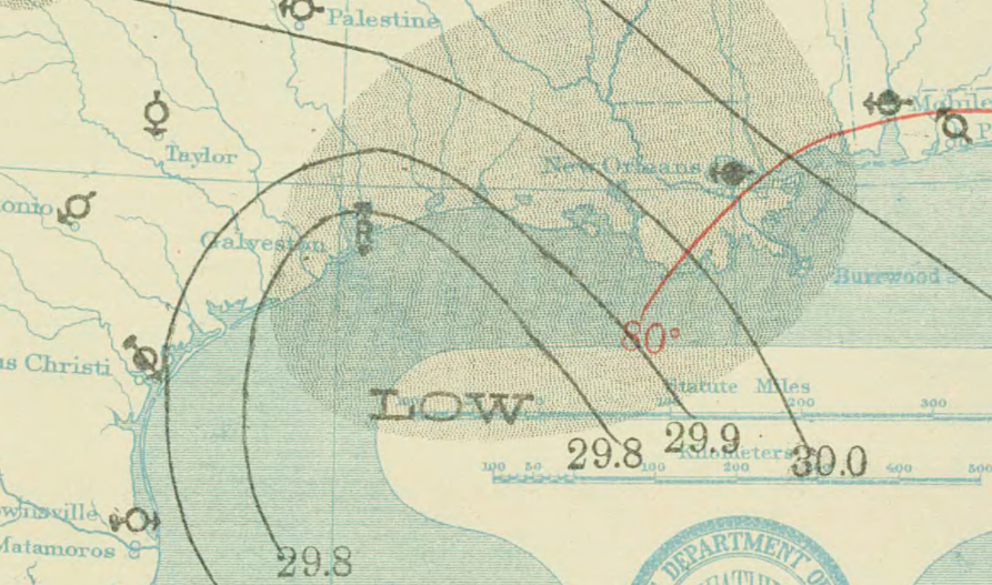 Surface weather analysis of the 1909 Velasco hurricane (Hurricane Four) in the western Gulf of Mexico.